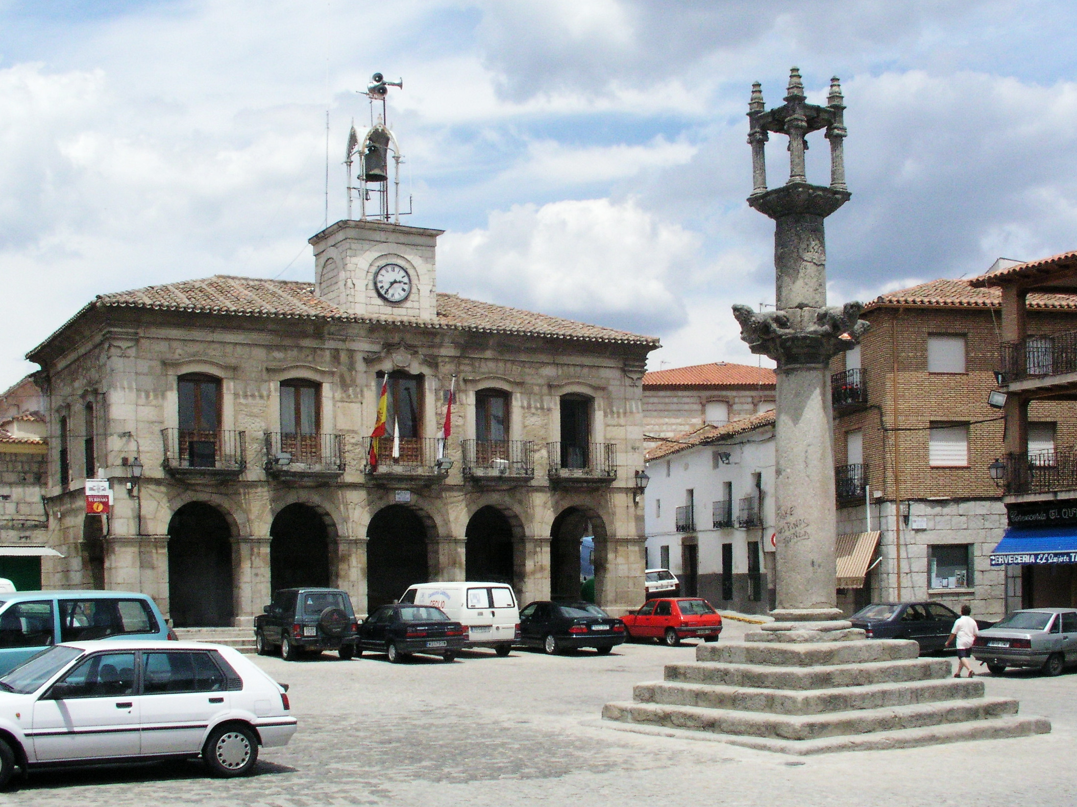 Ayntamiento, Almorox, Province of Toledo, Spain.